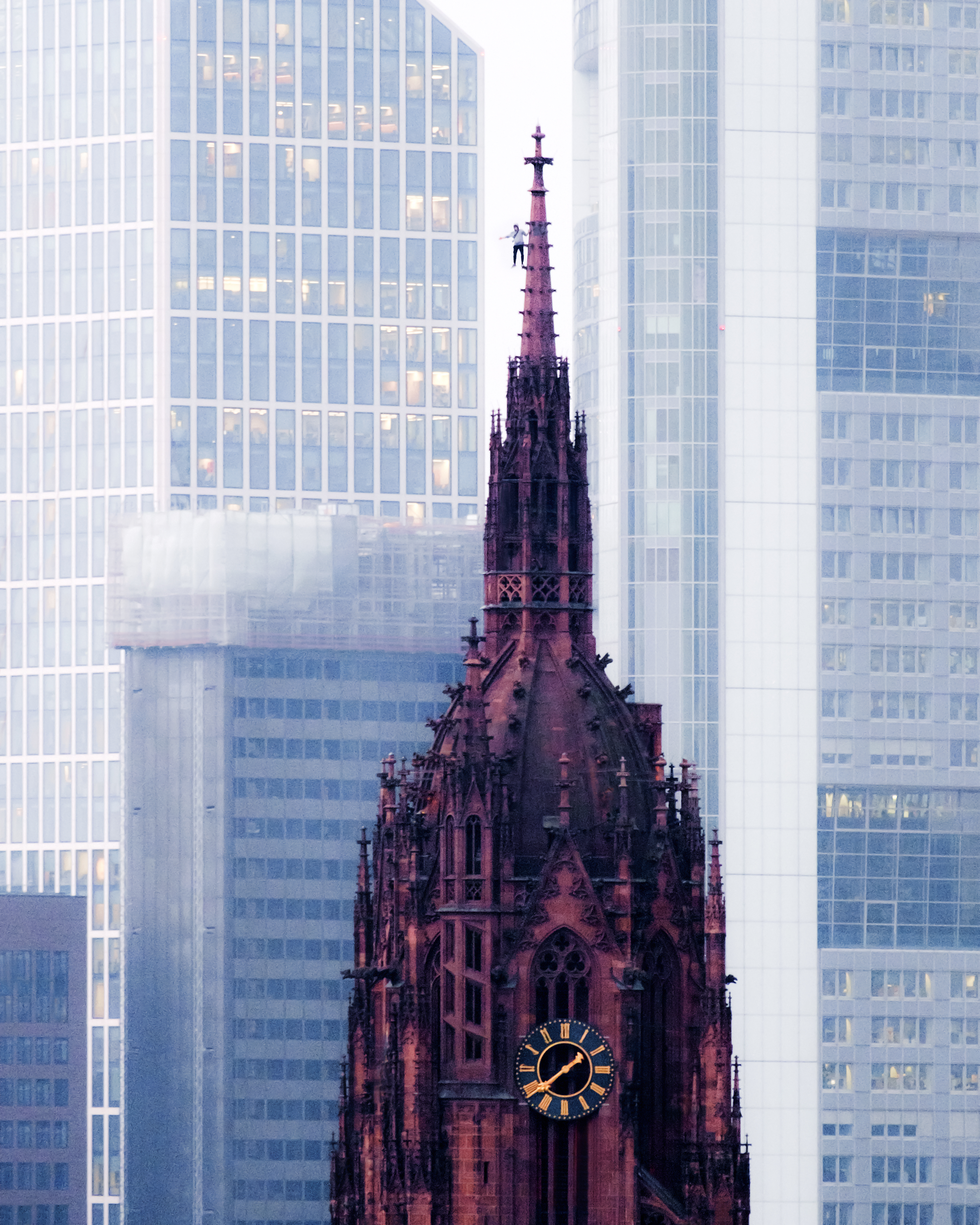 Rooftopper on top of Frankfurts Kaiserdom, shot with a telephoto lens with the skyline in the background